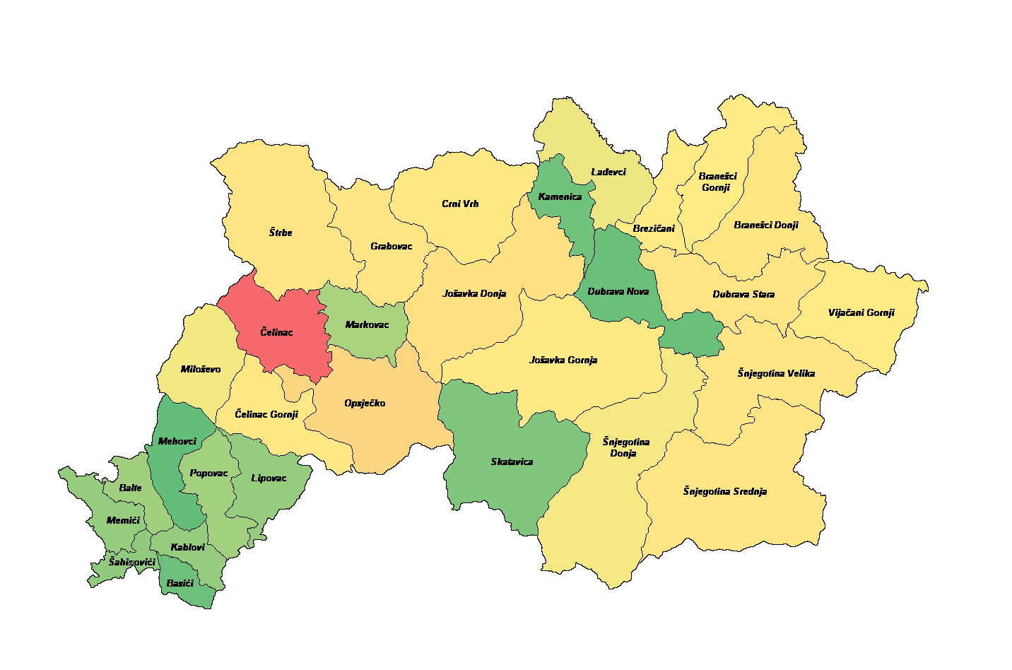 Čelinac